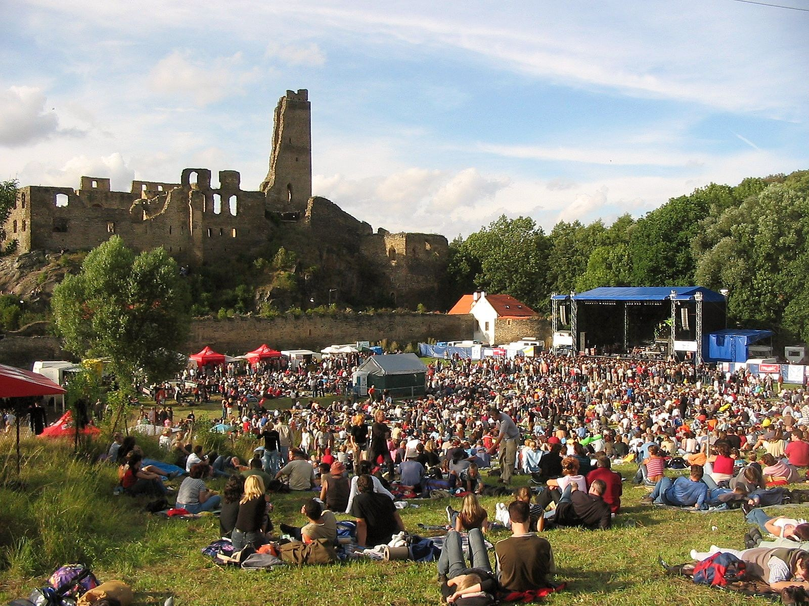 Ruins of the castle in Okoř near Prague. During Okoř Festival in 2004 author: Mohylek 14:57, 20 March 2007 (UTC)